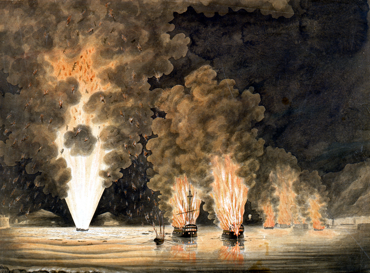 Evacuation of Toulon 1793 (showing many ships on fire).